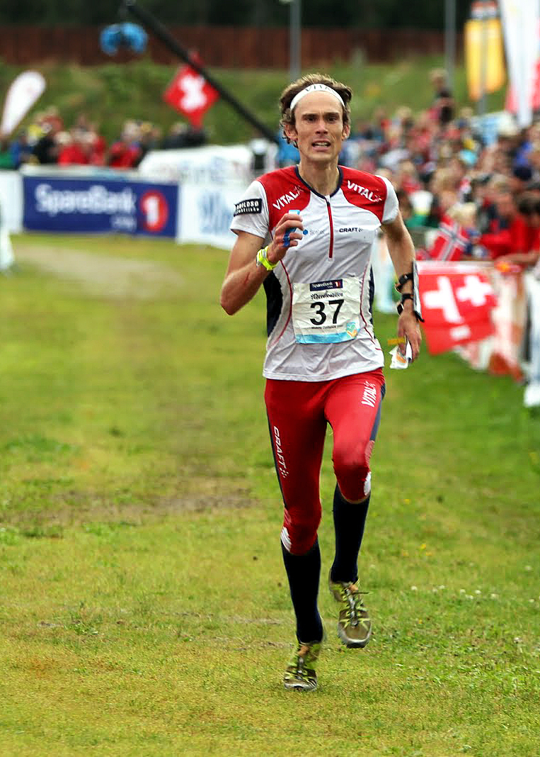 Audun Weltzien at World Orienteering Championships 2010 in Trondheim, Norway